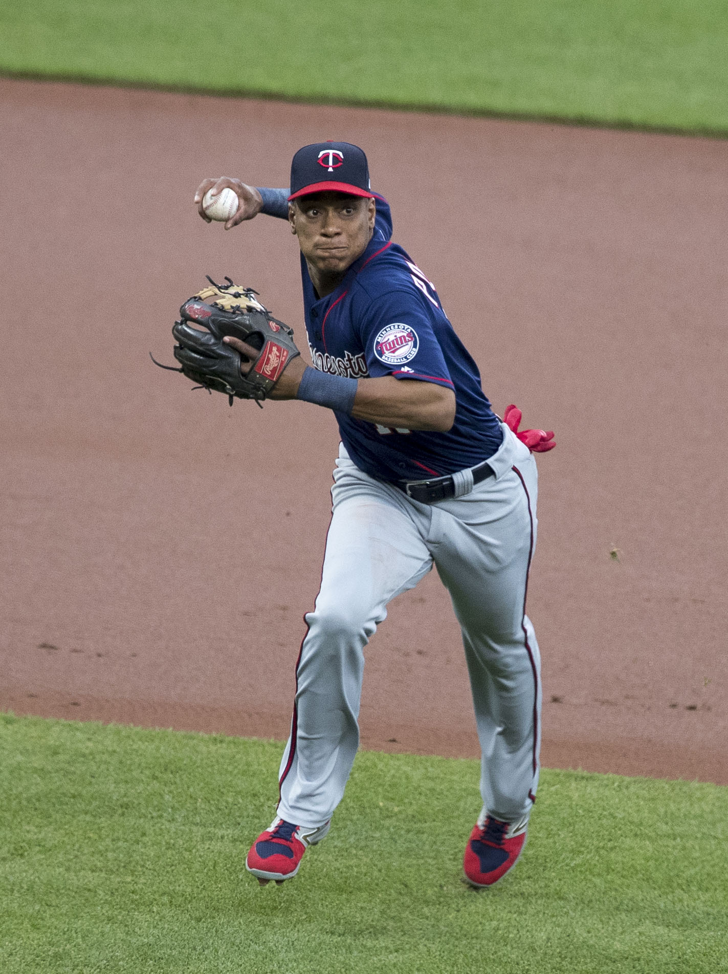 Jorge Polanco fielding a ground ball